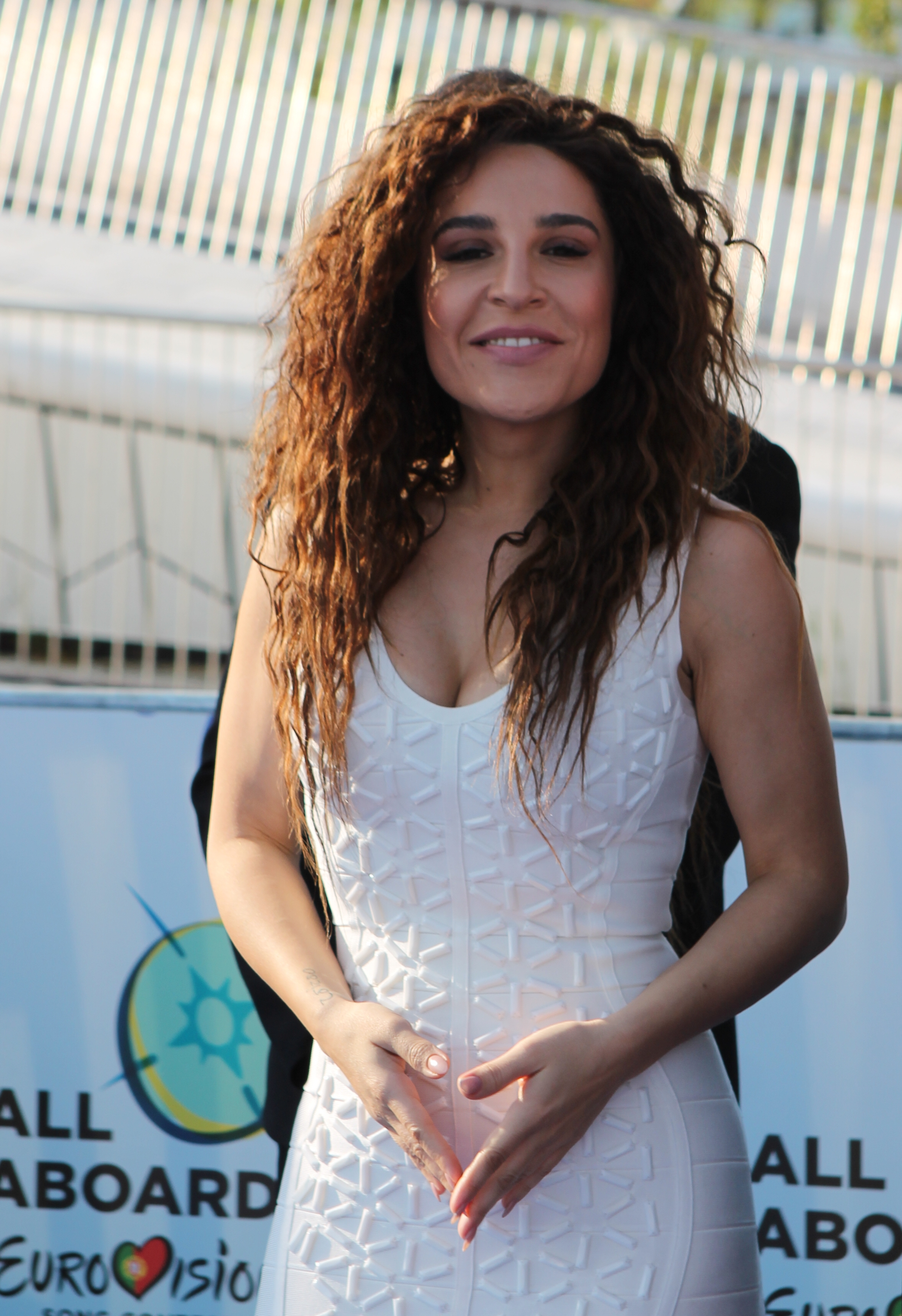 Yianna Terzi At the 2018 Eurovision Blue Carpet